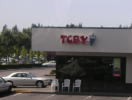 The exterior of a TCBY store in Lynnwood, Washington. Picture taken by me.